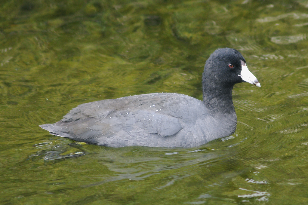 An American Coot after coming up from diving for food.